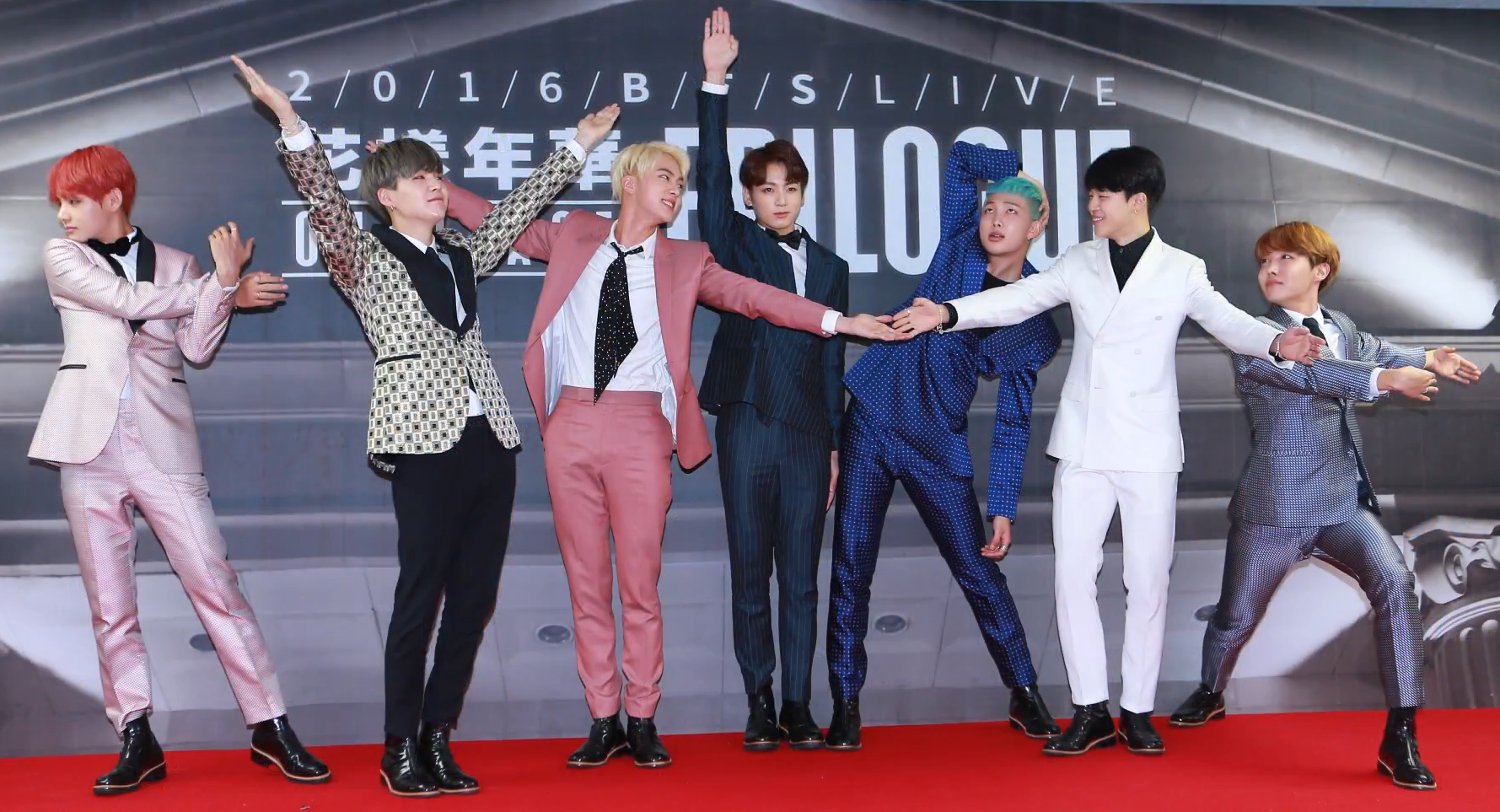 BTS at a press conference for their 2016 tour The Most Beautiful Moment in Life On Stage: Epilogue on May 7, 2018